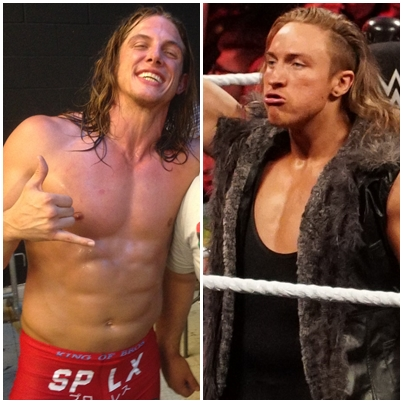 The professional wrestling tag team The BroserWeights (Matt Riddle and Pete Dunne).